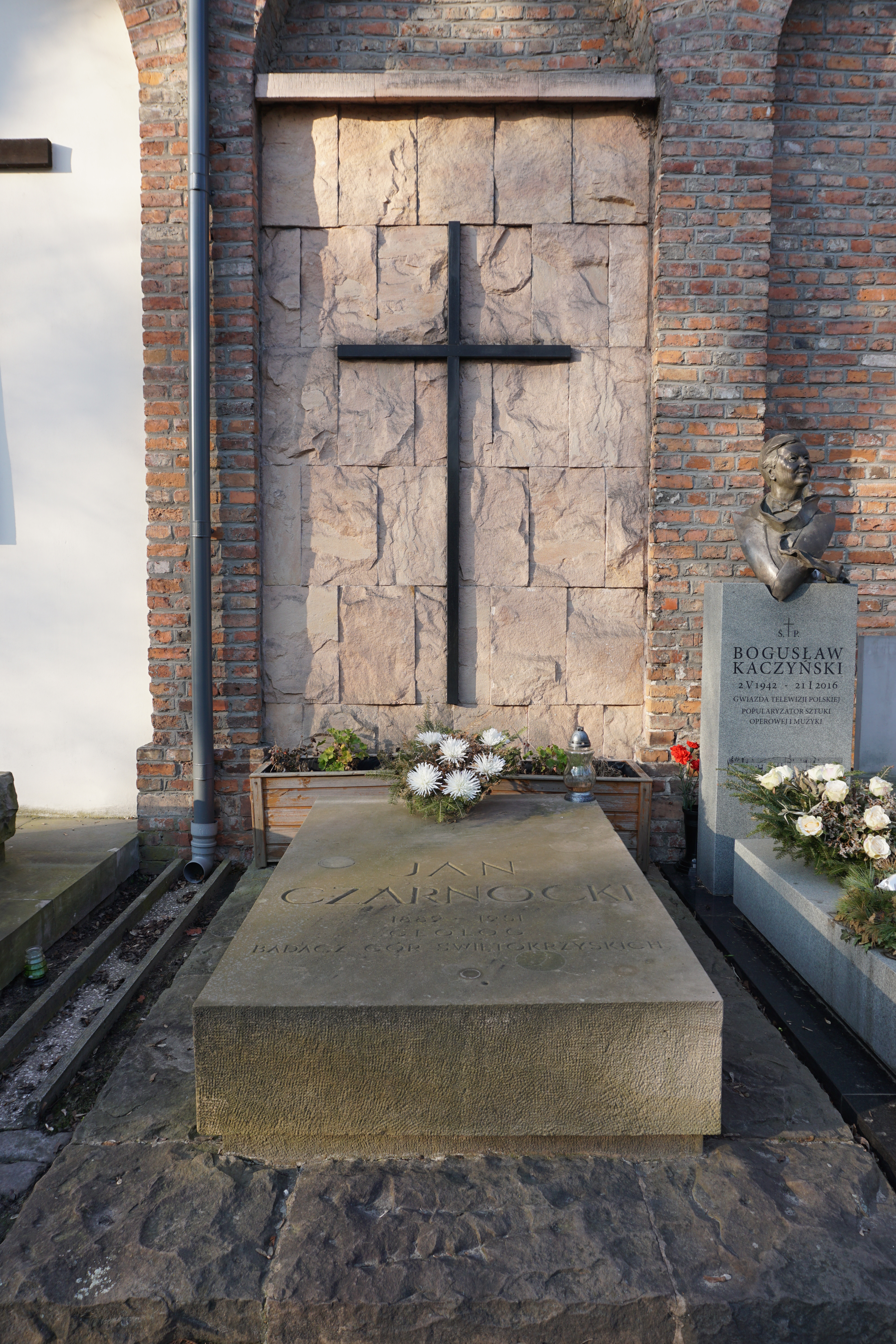 The grave of Jan Czarnocki at the Powązki Cemetery (Avenue of Deserved, grave 46, 47)